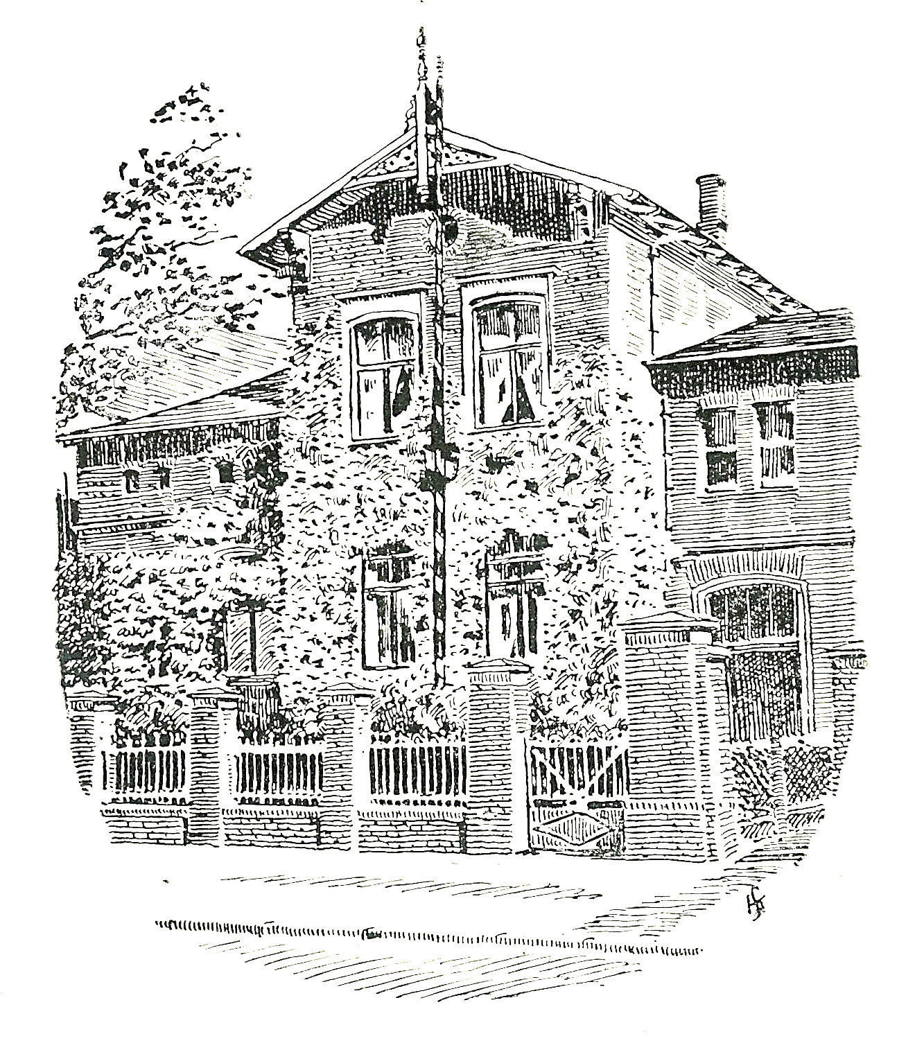 Former house of student fraternity Corps Guestfalia Greifswald / Germany, Stralsunderstrasse 9